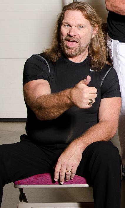 Pic of Jim Duggan taken on October 8th in Allentown, PA by me at the Hulk Hogan & friends event.